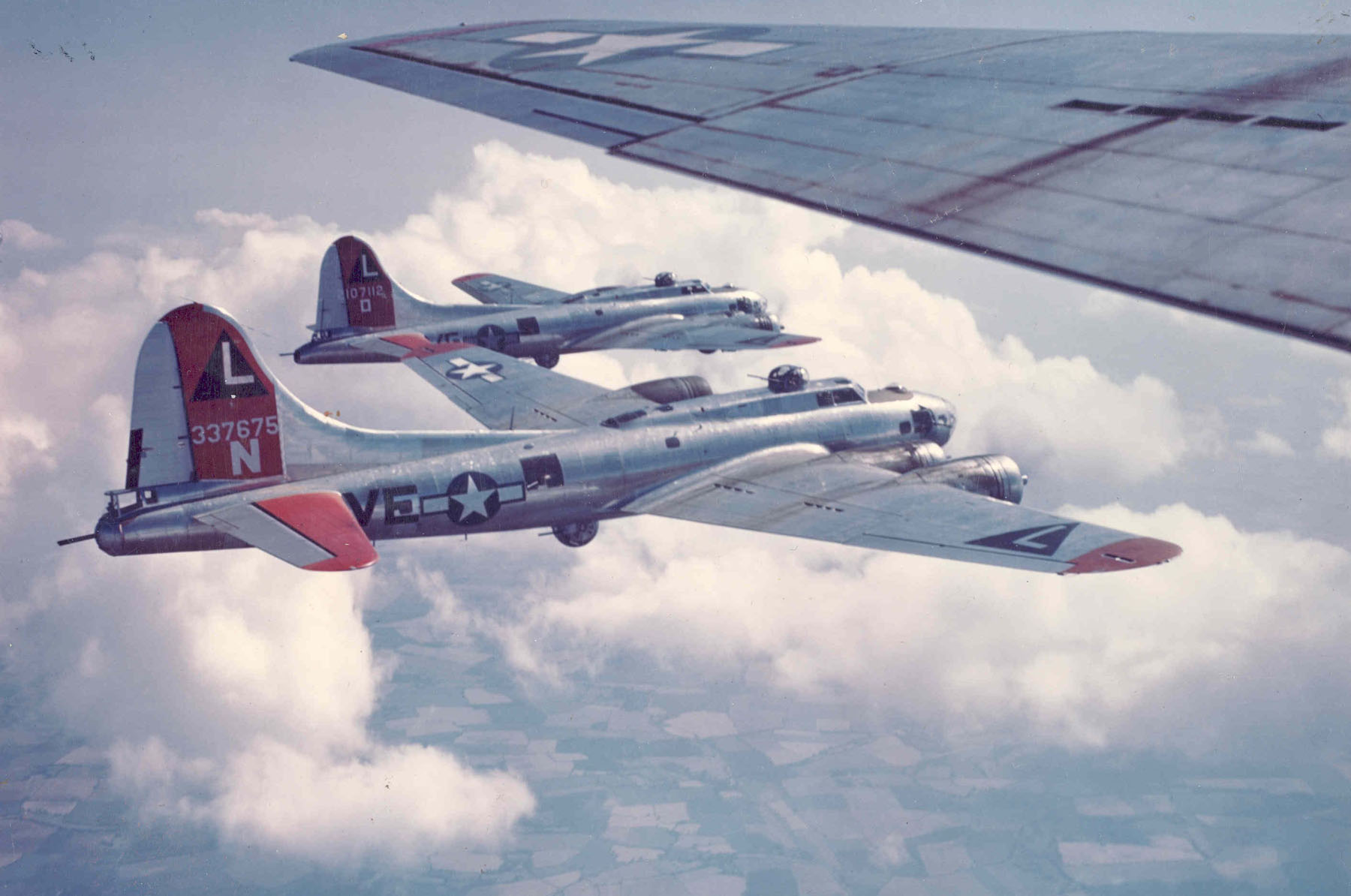 A formation of U.S. Army Air Force Boeing B-17Gs of the 532nd Bomb Squadron, 381st Bomb Group over Germany, 1944/45. The near aircraft is a B-17G-65-BO (S/N 43-37655), and far aircraft is a B-17G-35-DL (S/N 42-107112).